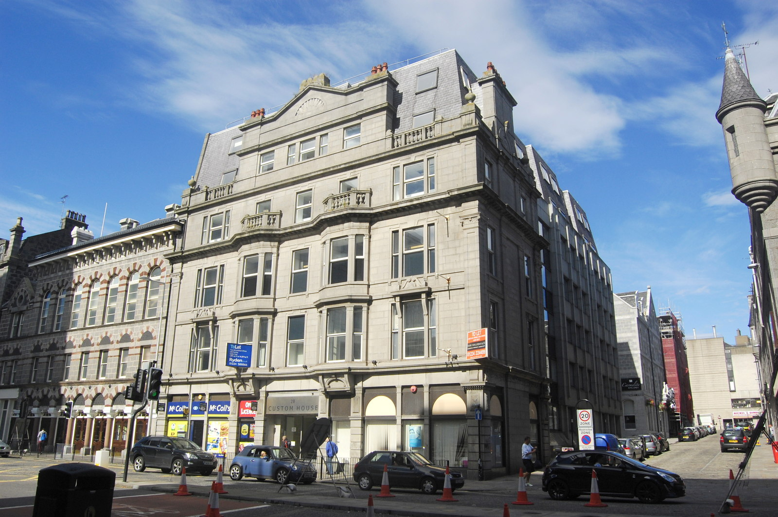 Custom House, Guild Street, Aberdeen